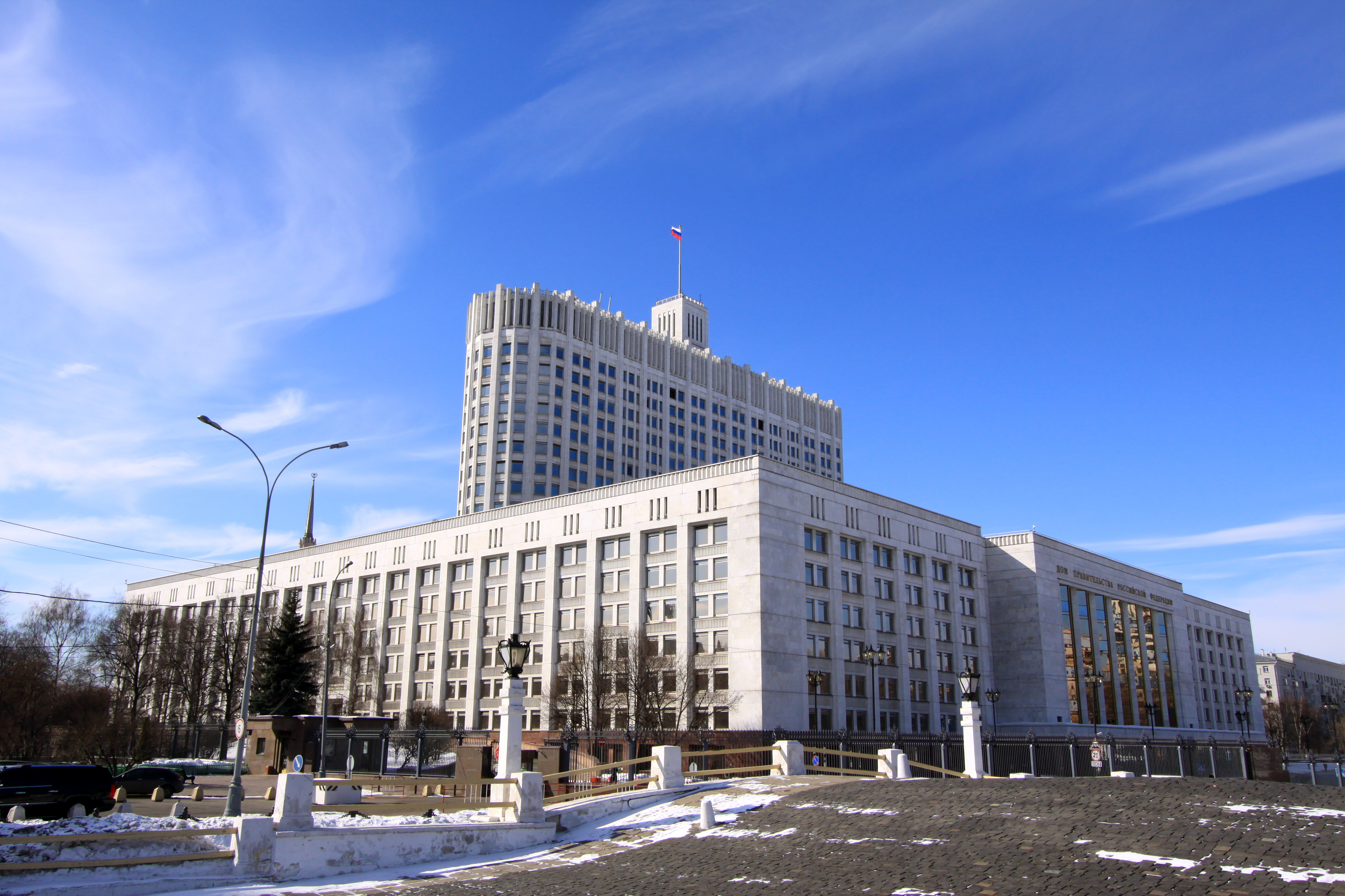 The Russian White House in Moscow, House of the Government of the Russian Federation.